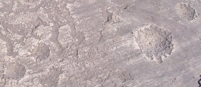 Cup marks and petroglyphs from Parco archeologico comunale di Seradina-Bedolina. Cemmo, Capo di Ponte, Val Camonica